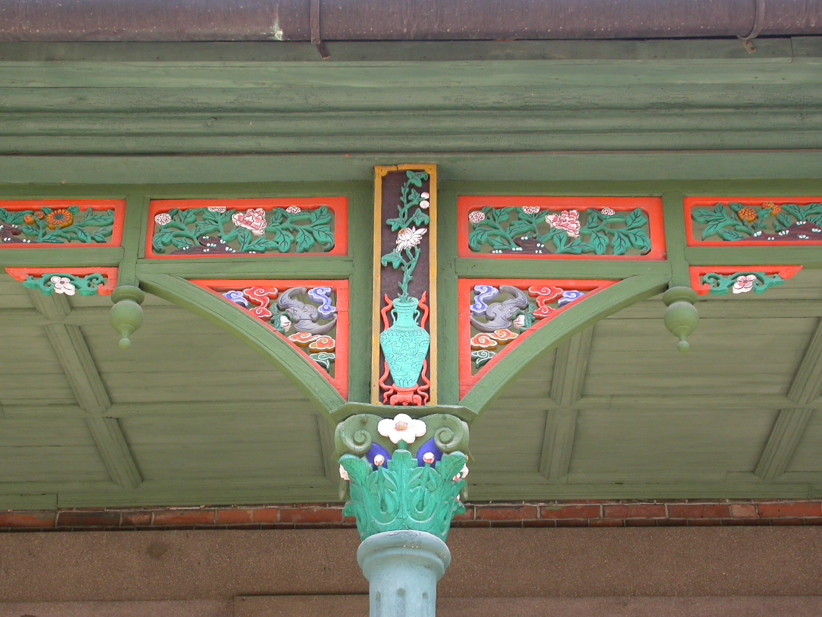 Jeonggwanheon pillar details